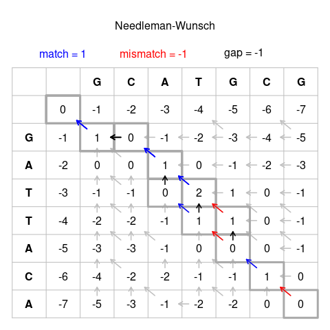 The score matrix for an alignment between GATTACA and GCATGCU.